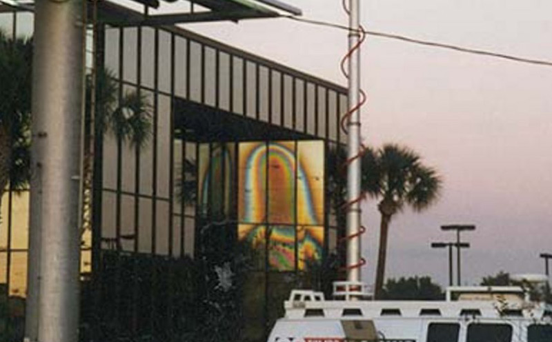 Example of pareidolia: image of the Virgin Mary appears in the glass of a Tampa, Florida office building on Christmas Day 1996.